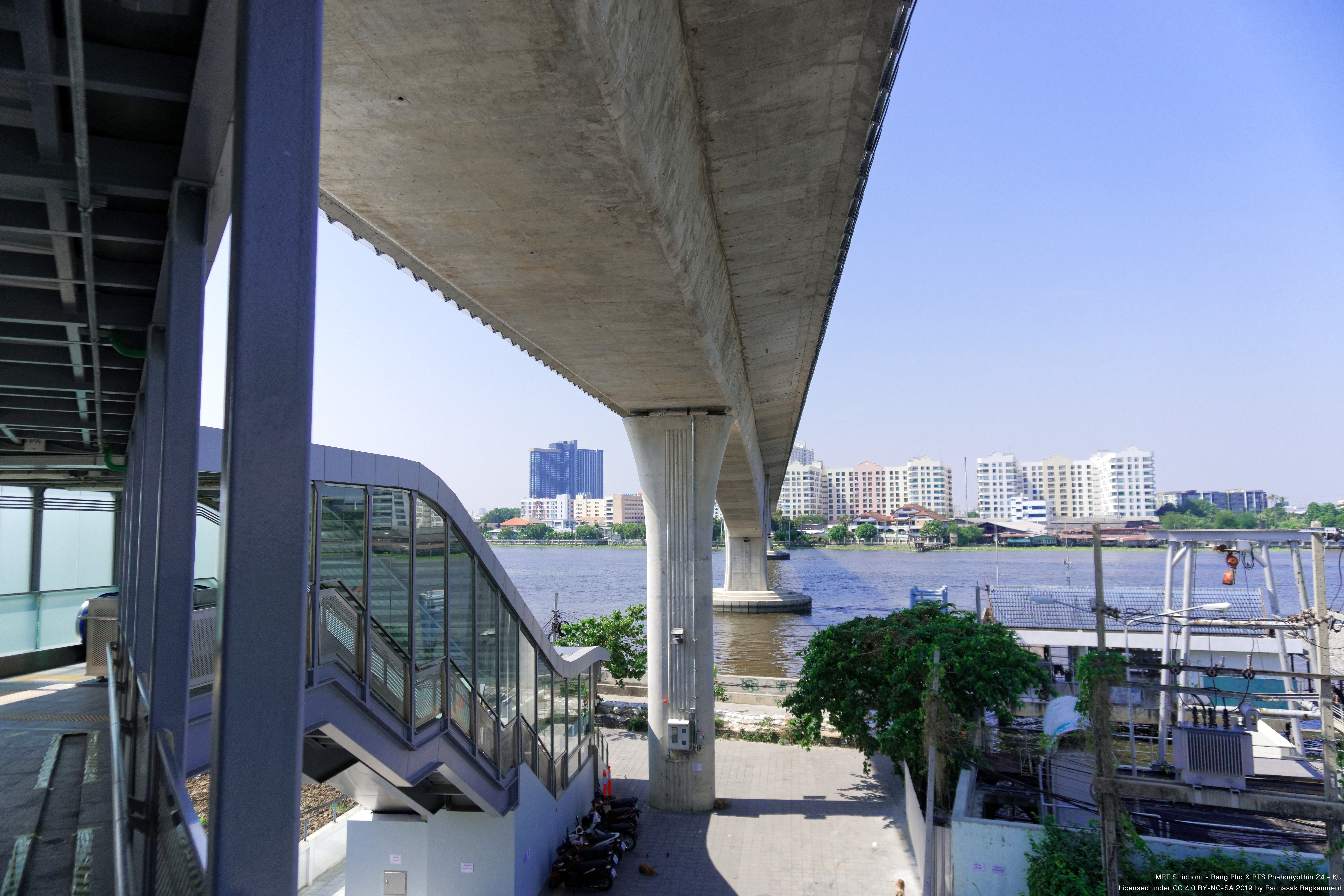 MRT Bang Pho - Chao Phraya river from Exit 1